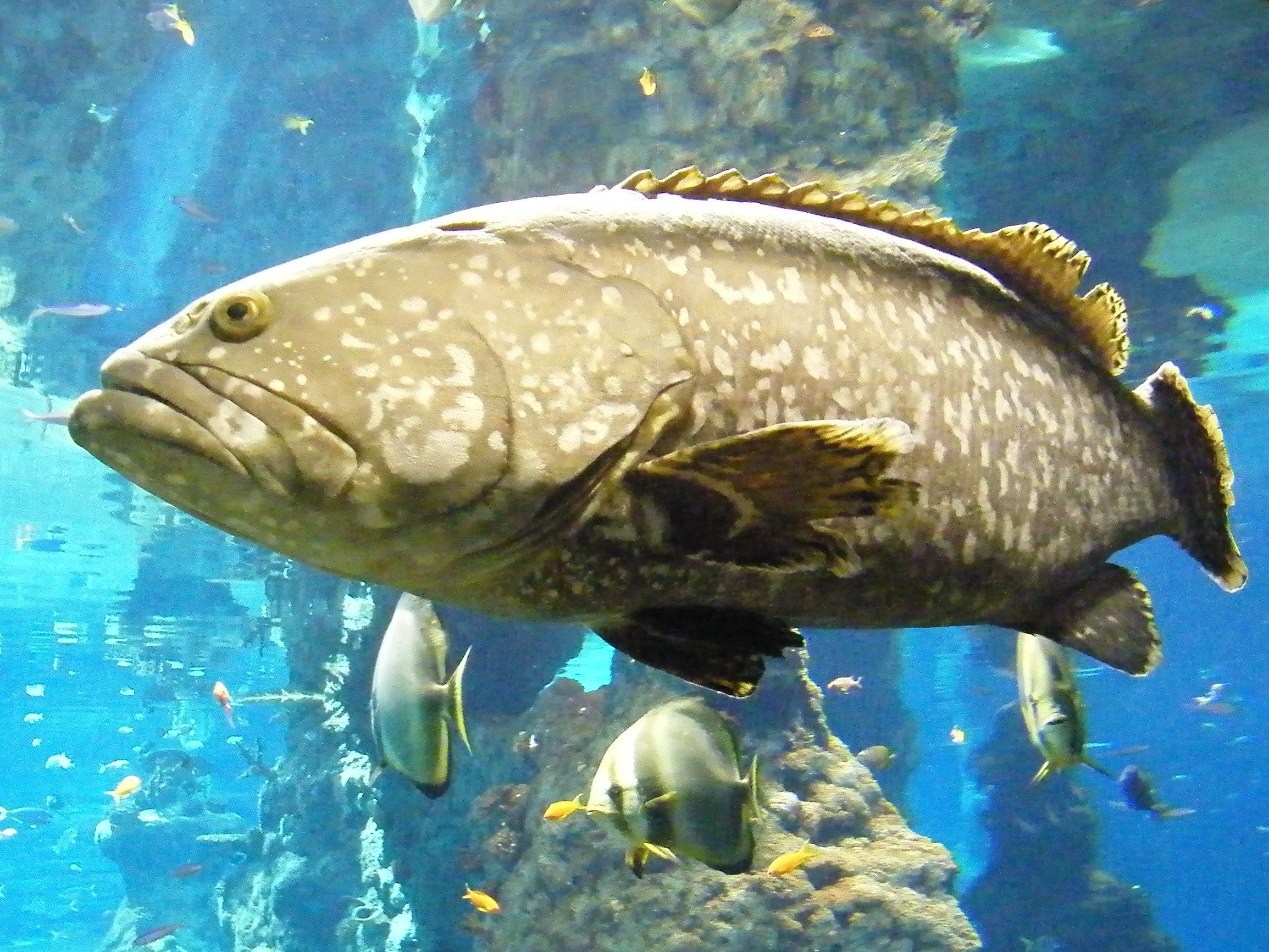 Fish in Wroclaw ZOO